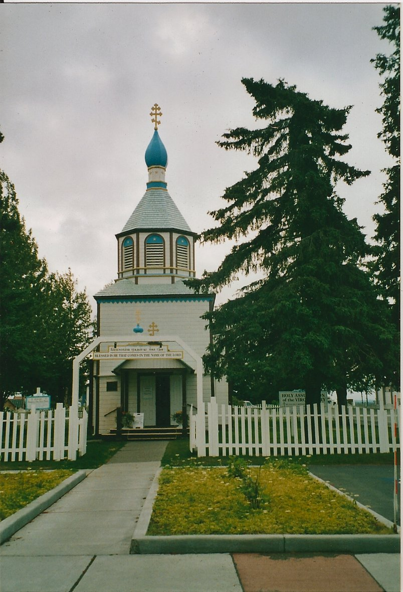 kenai (Alaska) orthodox church